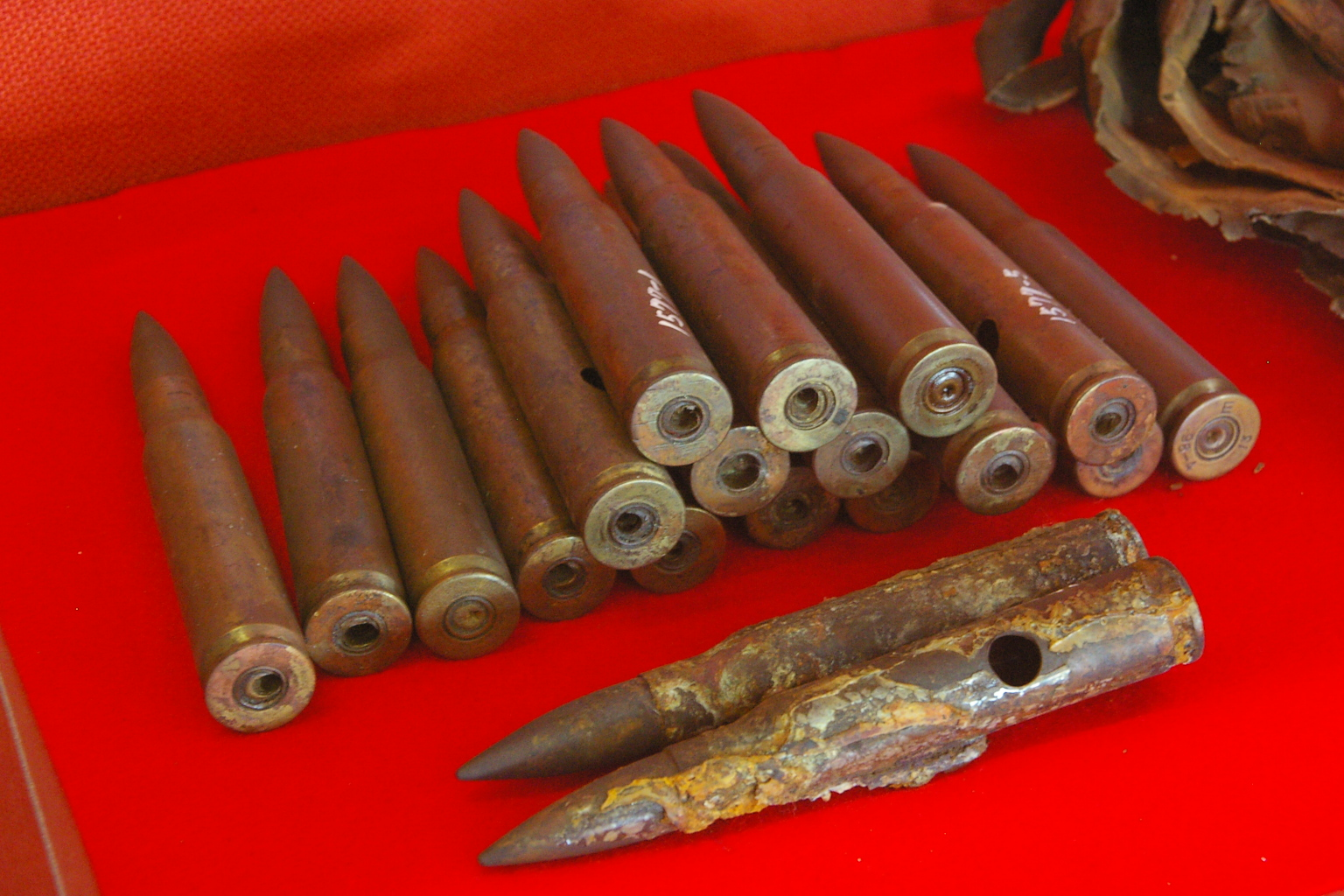 Japanese navy Type93 13mm machine gun Ammunition.